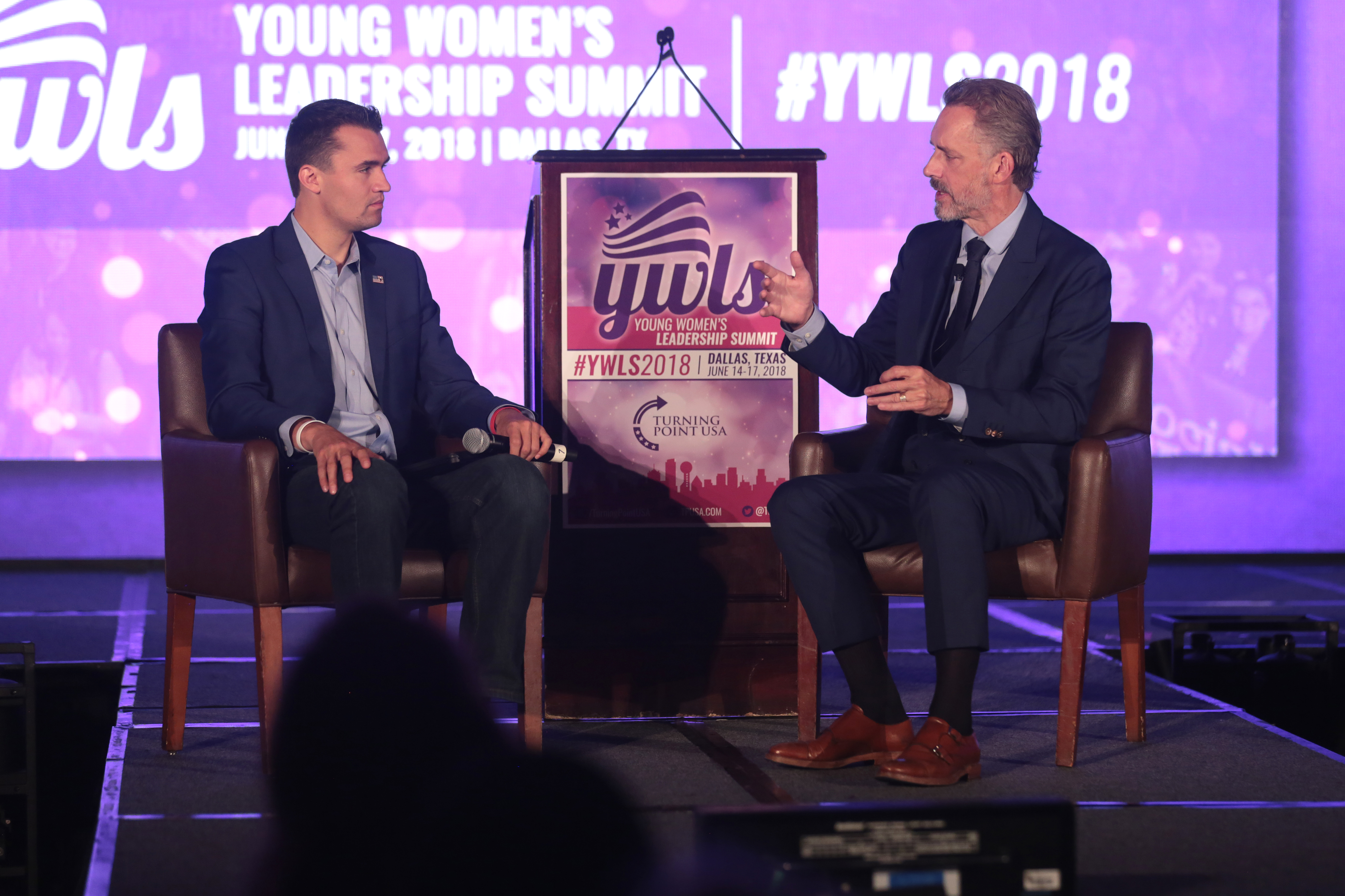 Charlie Kirk and Jordan Peterson speaking with attendees at the 2018 Young Women's Leadership Summit hosted by Turning Point USA at the Hyatt Regency DFW Hotel in Dallas, Texas.